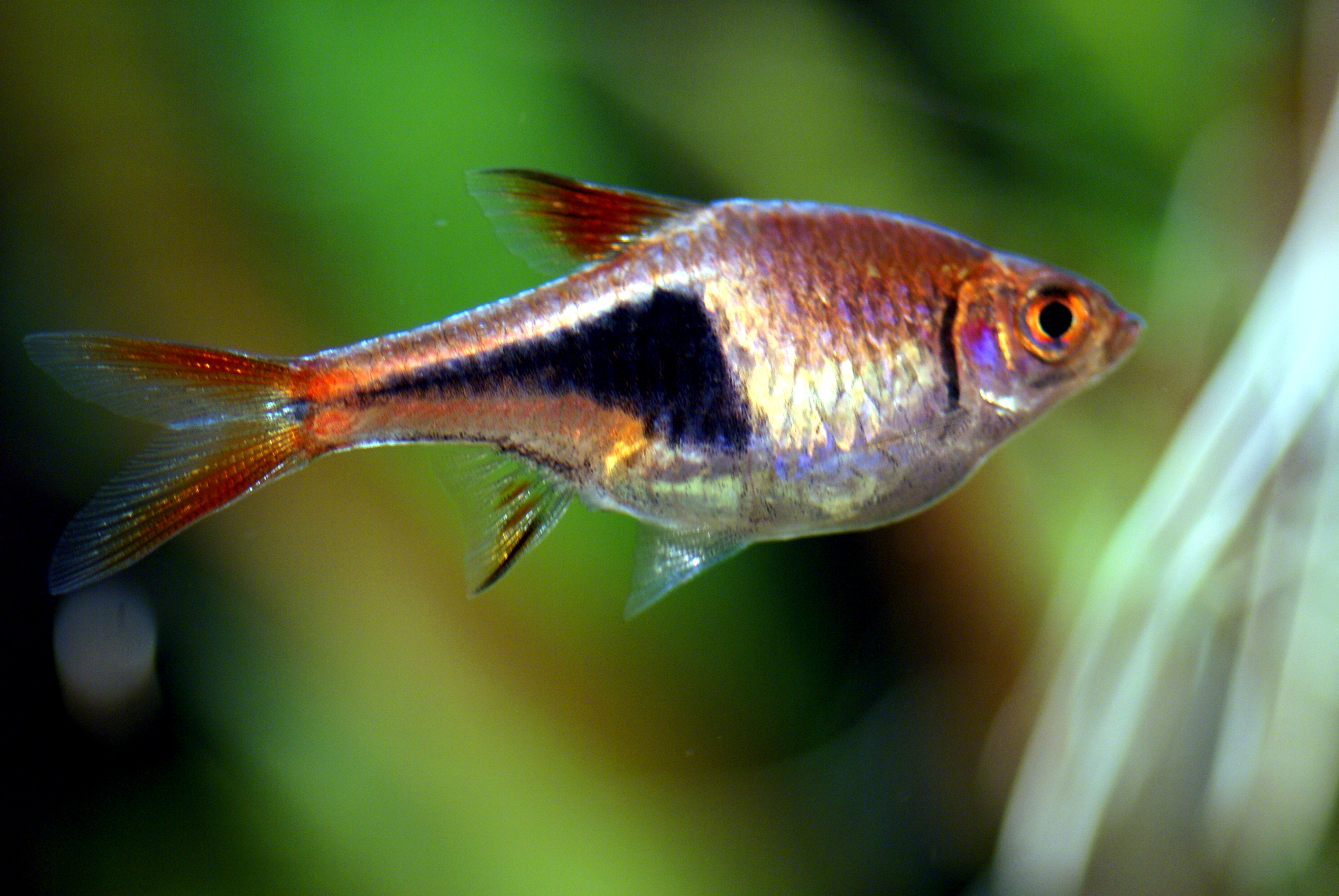 Harlequin rasbora, Trigonostigma heteromorpha